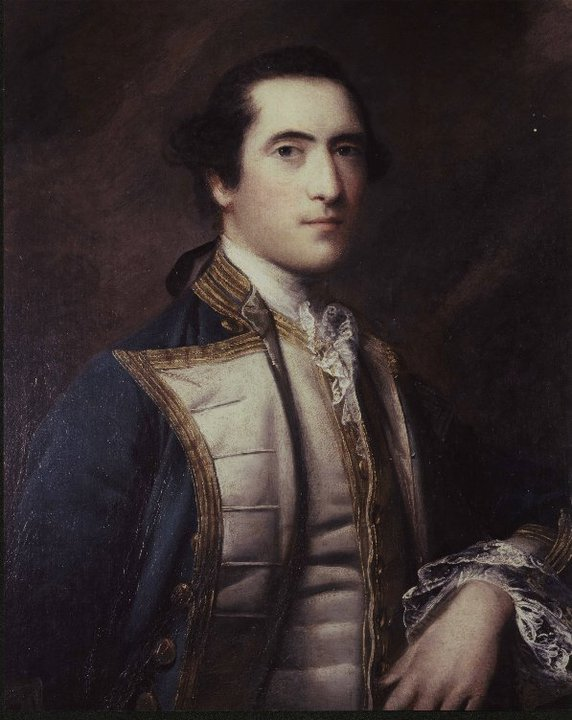 Admiral Robert Digby British Navy